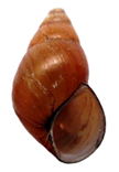 Photo of an apertural view of a shell of Bithynia siamensis siamensis.